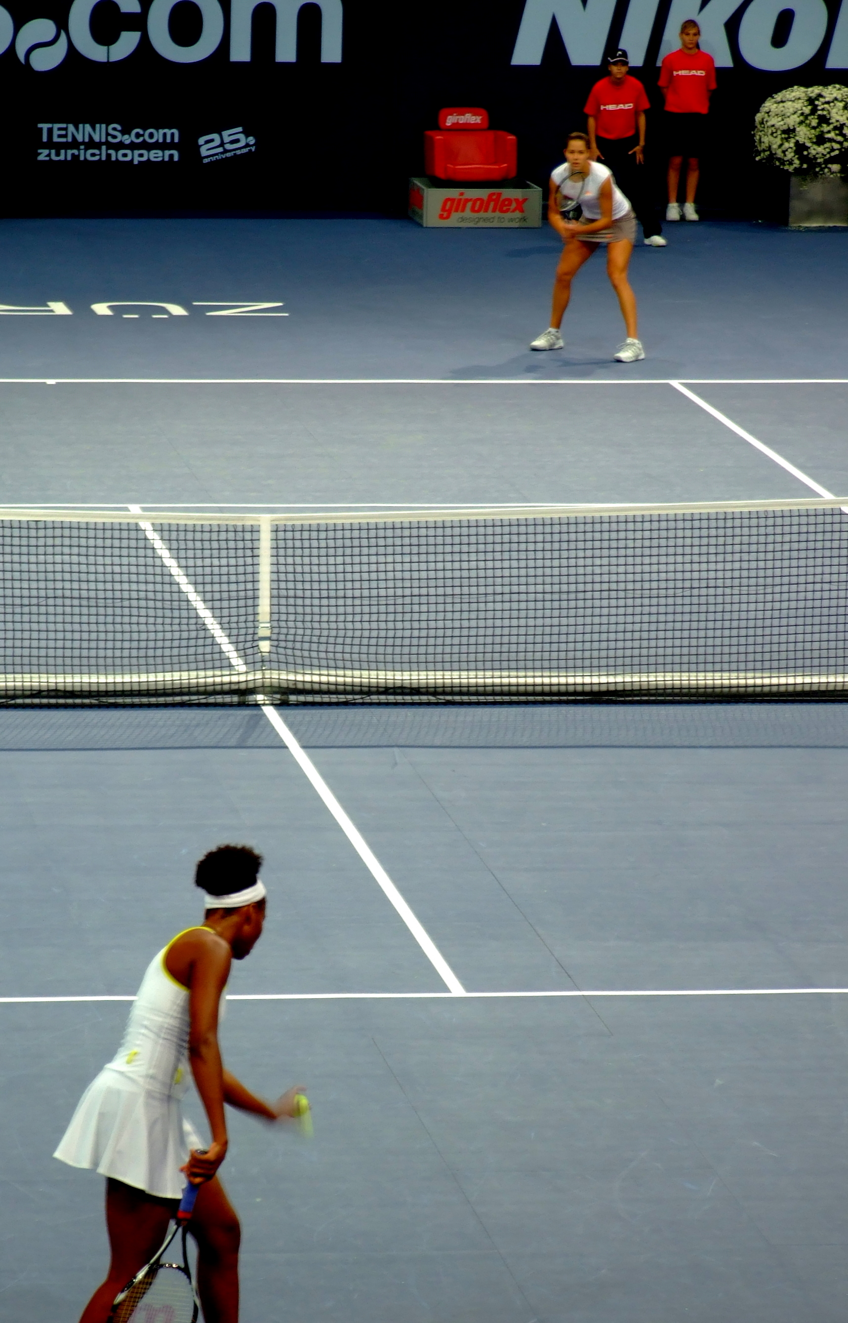 Venus Williams vs Ana Ivanovic in the Zurich Open 2008 Semi-Final. Williams went on to win the tournament, defeating Flavia Pennetta in the final, in what was the final year of the Zurich event.